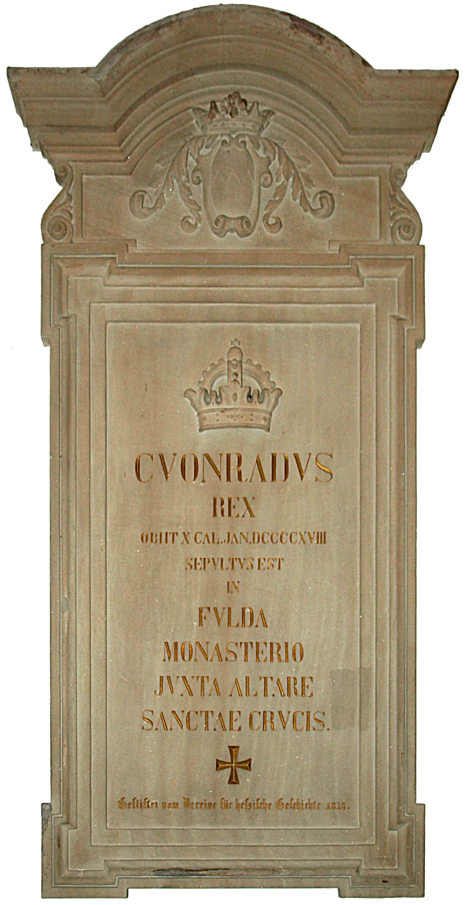 memorial of King Konrad I. (881 - 918), in the Cathedral of Fulda